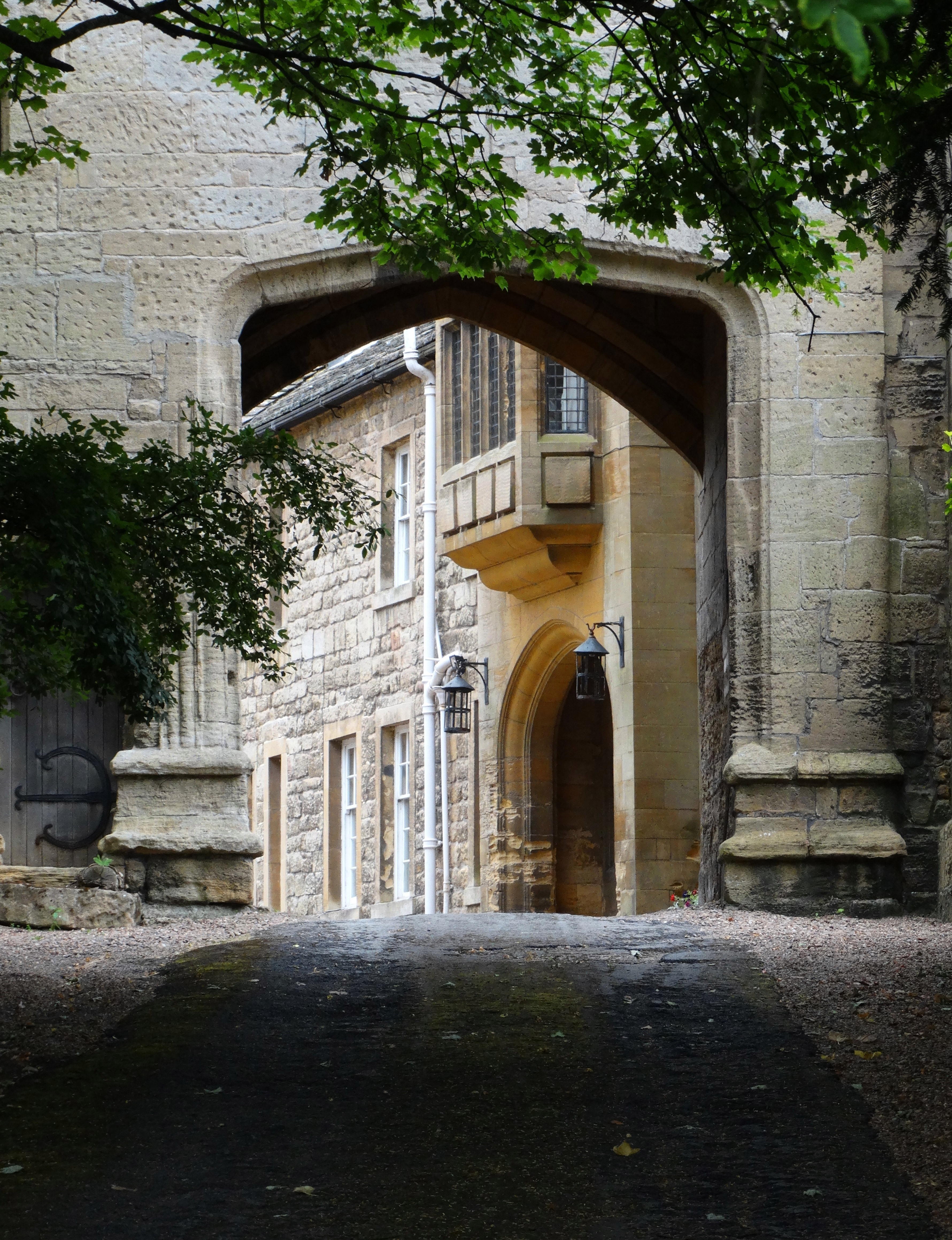 A glimpse of Hooton Pagnell Hall. The inner gateway is believed to have been constructed in the fourteenth century. The hall itself became the residence of Sir Patience Warde (1629-96) a former Lord Mayor of London.